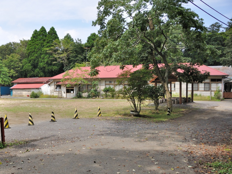 Fir Farm Kaisho Building